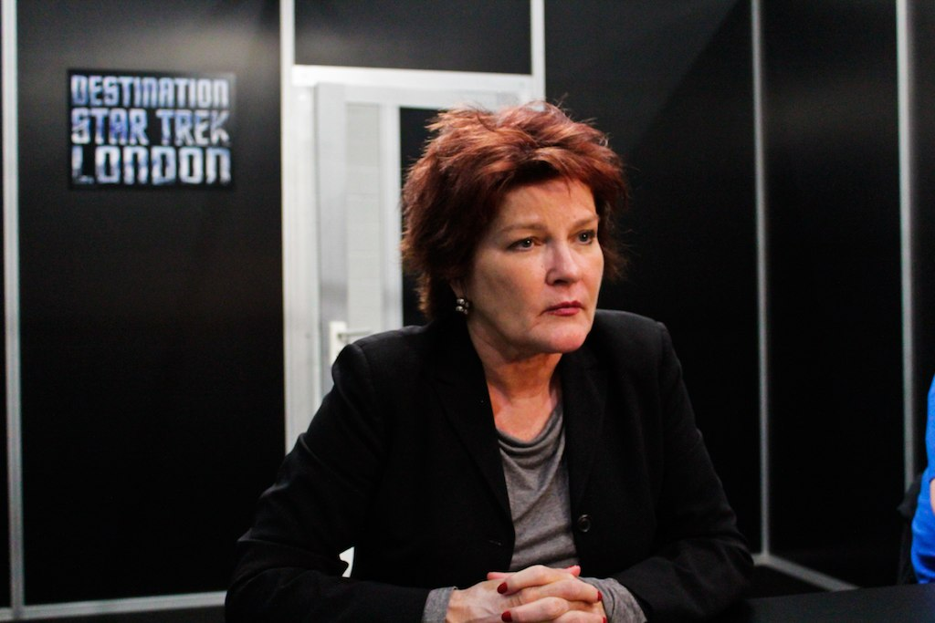 Destination Star Trek London: Kate Mulgrew